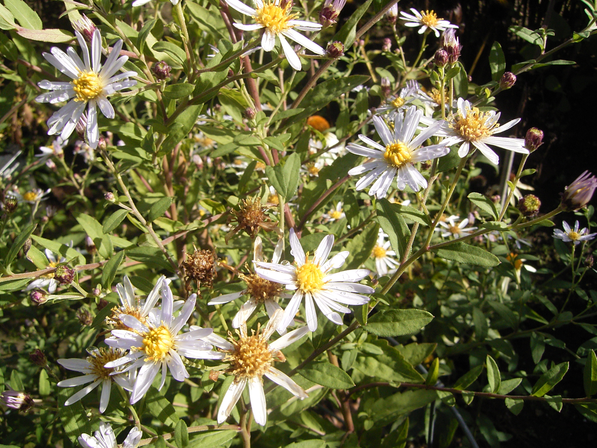 Deze foto toont de Aster ageratoides. Ik nam de foto in het arboretum in Wageningen. This photo shows Aster ageratoides. I took the photo in the arboretum in Wageningen, Netherlands.